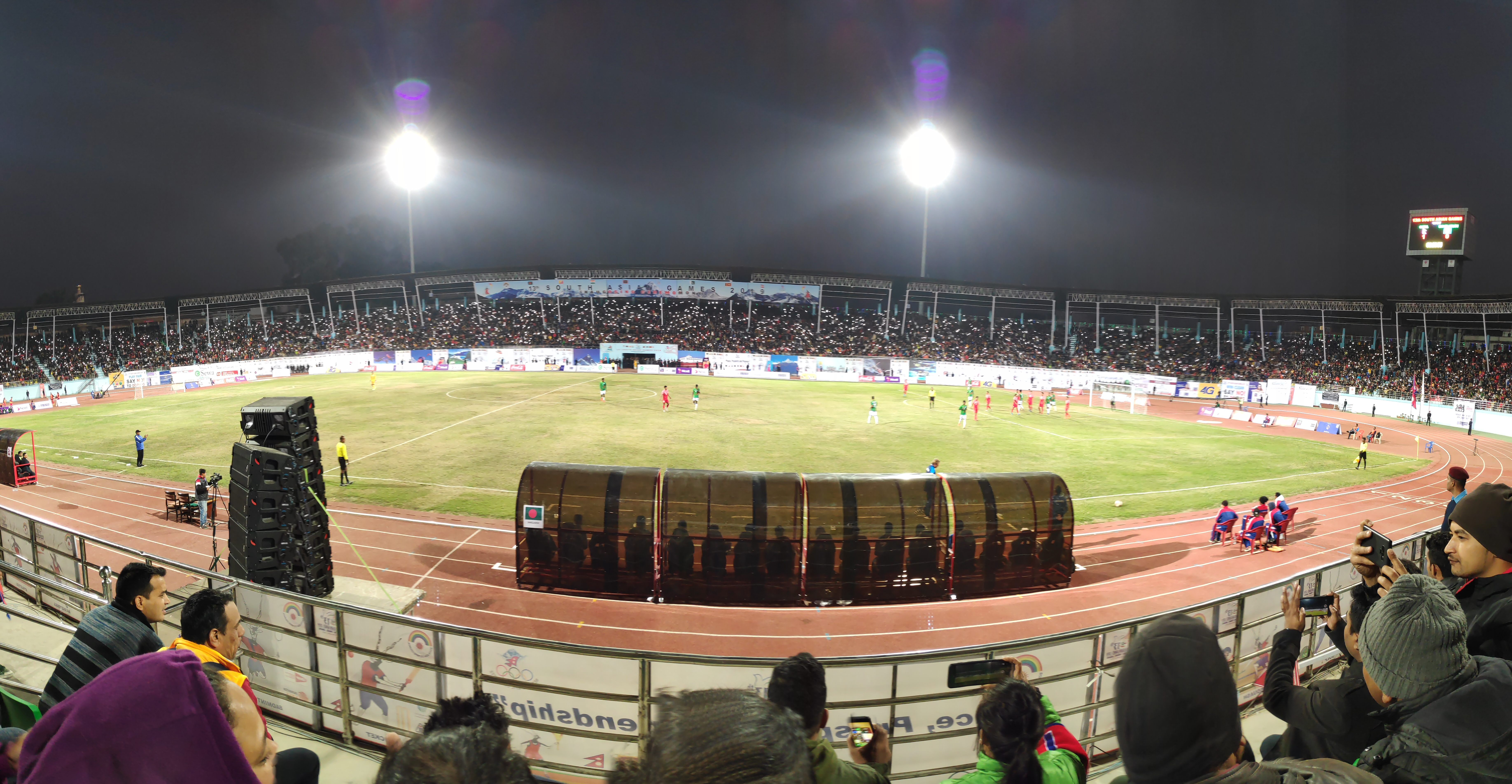 Nepal vs Bangaldesh SAG 2019 (December 8,2019)